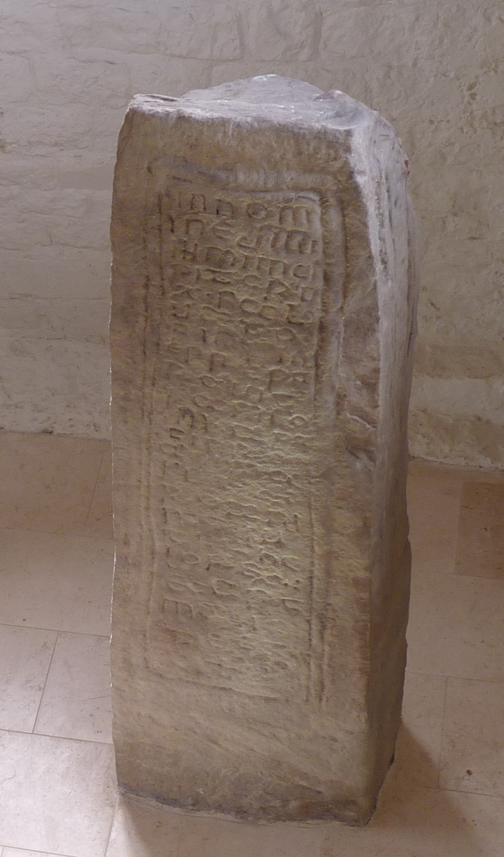 Abbott Samson's Pillar Cross, also known as the King Stone. Pillar cross of the late 9th century, 9 foot high, at St Illtyd's Church, Llantwit Major, South Glamorgan, Wales; discovered by Iolo Morganwg in 1789. Inscribed on both sides with a long inscription in Latin, reading "IN NOMINE DI SUMMI INCIPIT CRUX SALVATORIS QUAE PREPARAVIT SAMSON ABATI PRO ANIMA SUA ET PRO ANIMA IUTHAHELO REX ET ARTMALI ET TECANI" ("In the name of the most high (God) begins the cross of the (Saviour) which Samson the Abbot prepared for his soul, and for the soul of Iuthahelo (Judwal) the King and of Arthmael and of Tecan"). Abbot Samson's pillar cross is often confused with Samson's Cross, also at St Illtyd's Church.